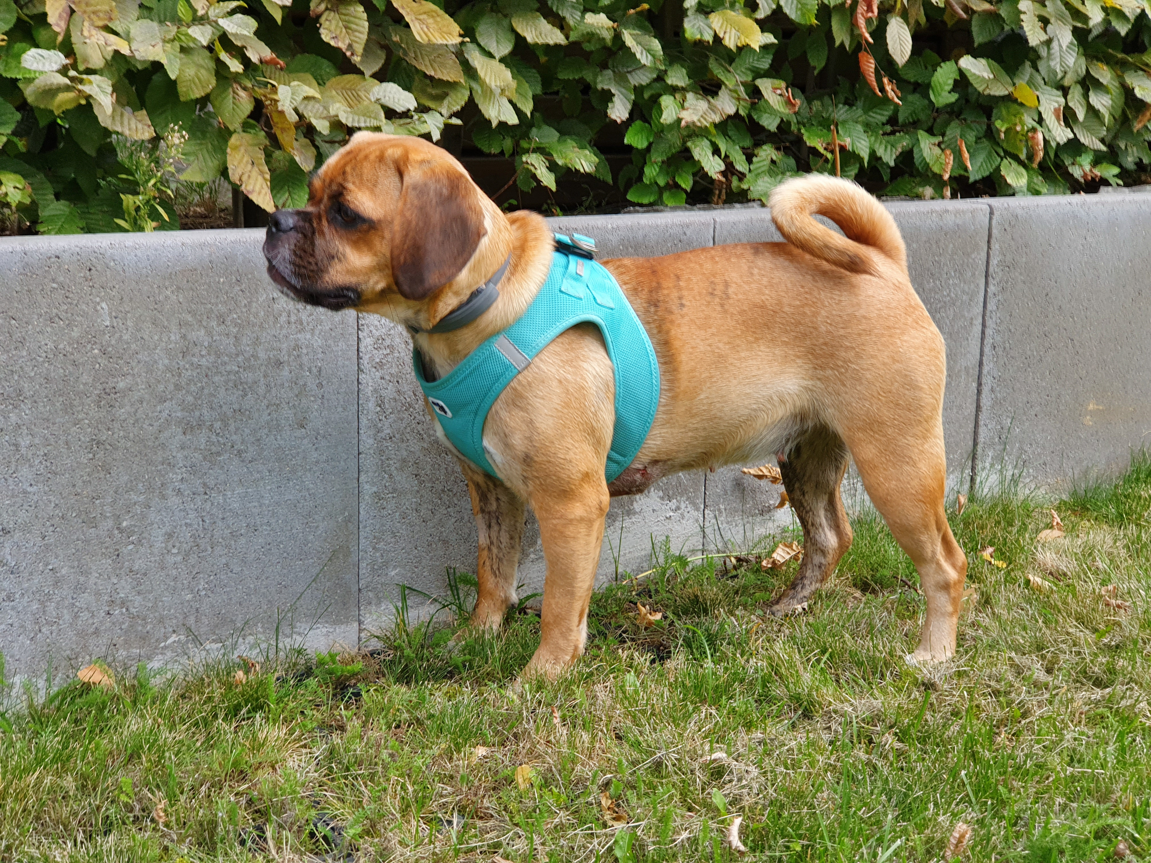 Puggle beige standing